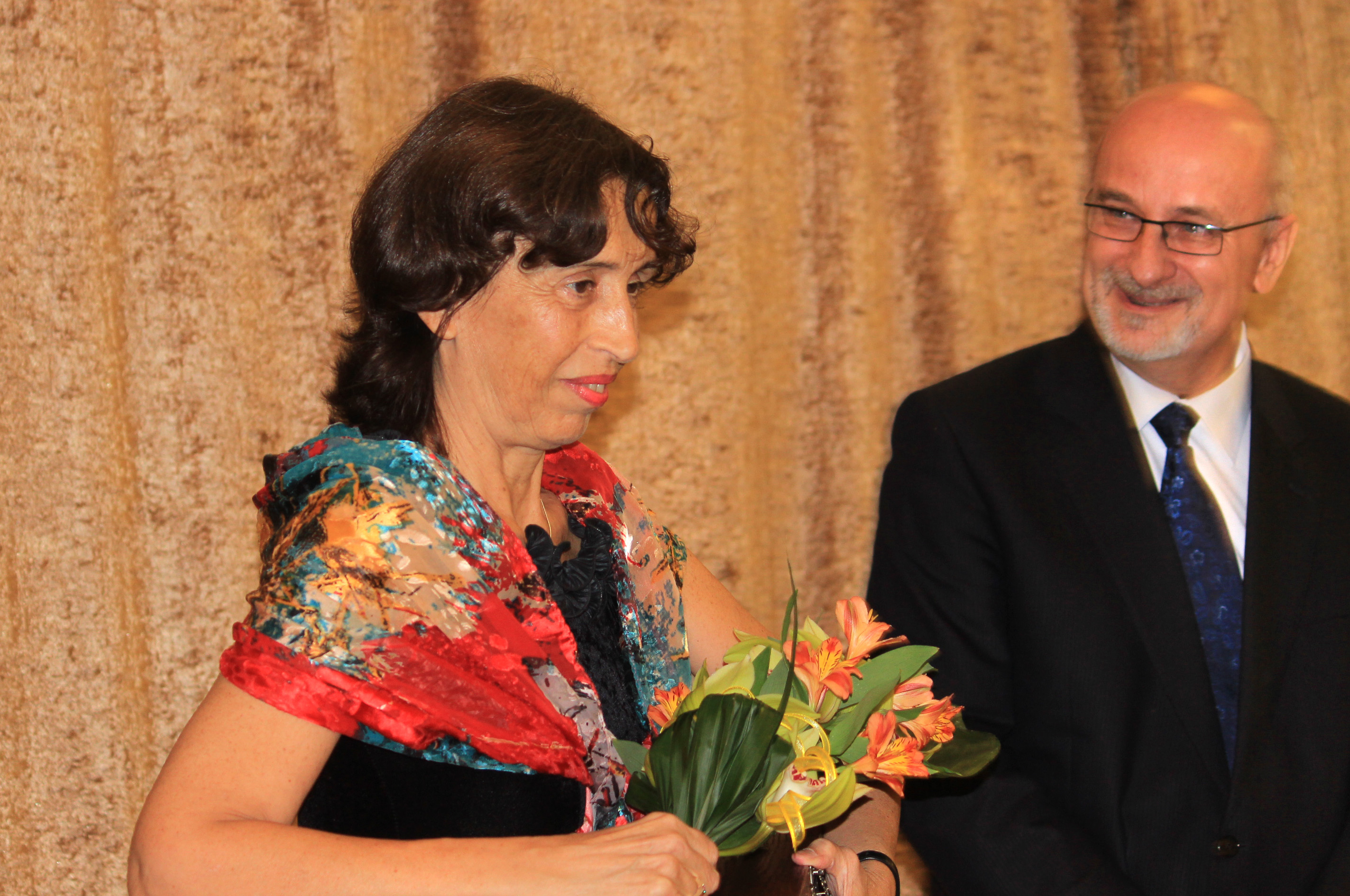 Autumn Book Fair in Havlíčkův Brod, Czech Republic – Markéta Hejkalová.